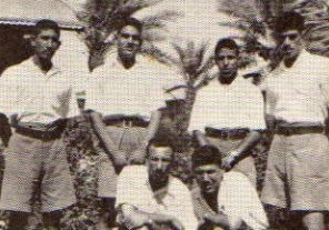 Abd al-Karim Qasim during his military academy years.